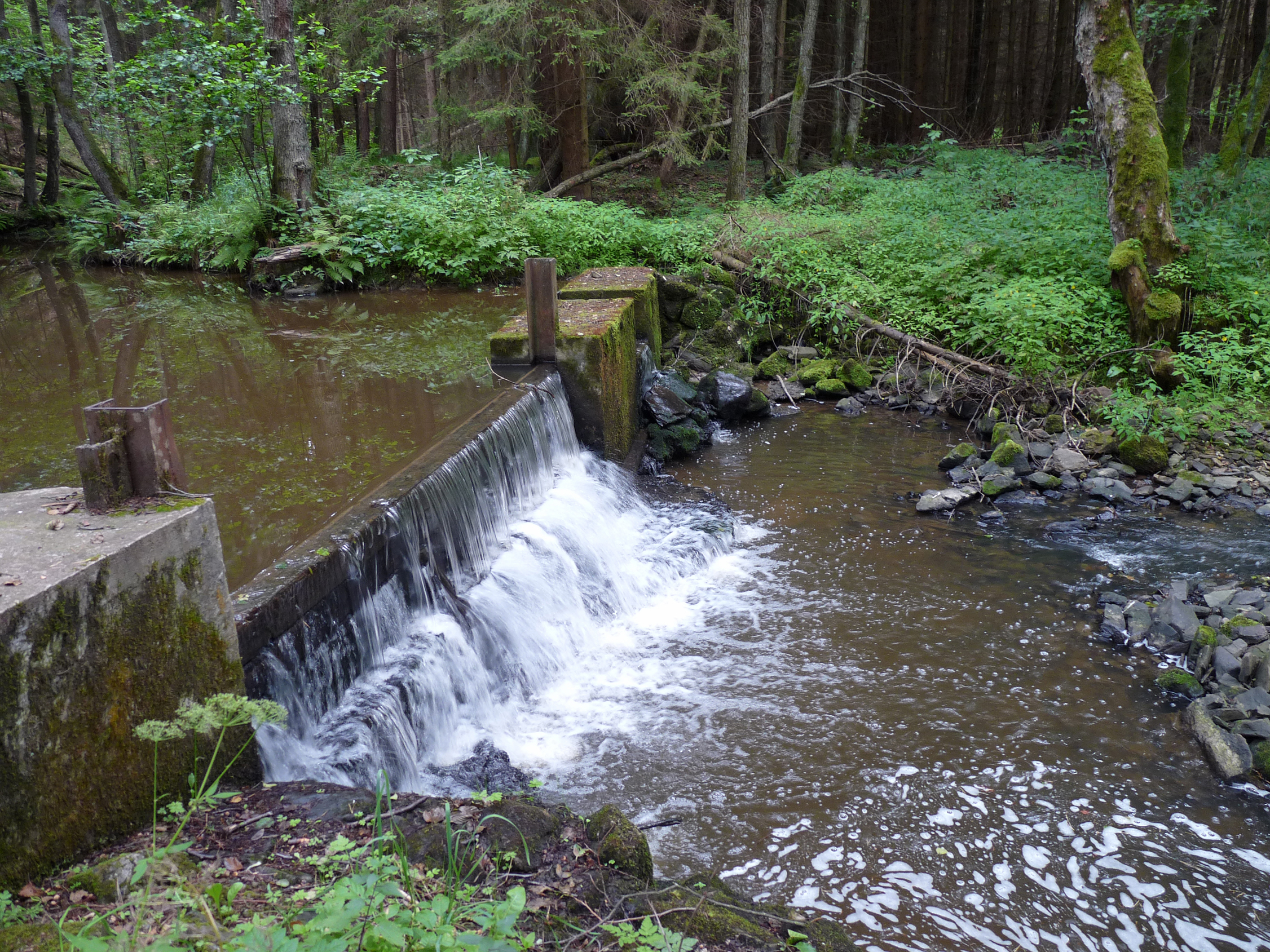 Keblanský Stream weir near the natural monument Ďáblík, České Budějovice District, Czech Republic. Česky: Jez na Keblanském potoce nedaleko přírodní památky Ďáblík v okrese České Budějovice.